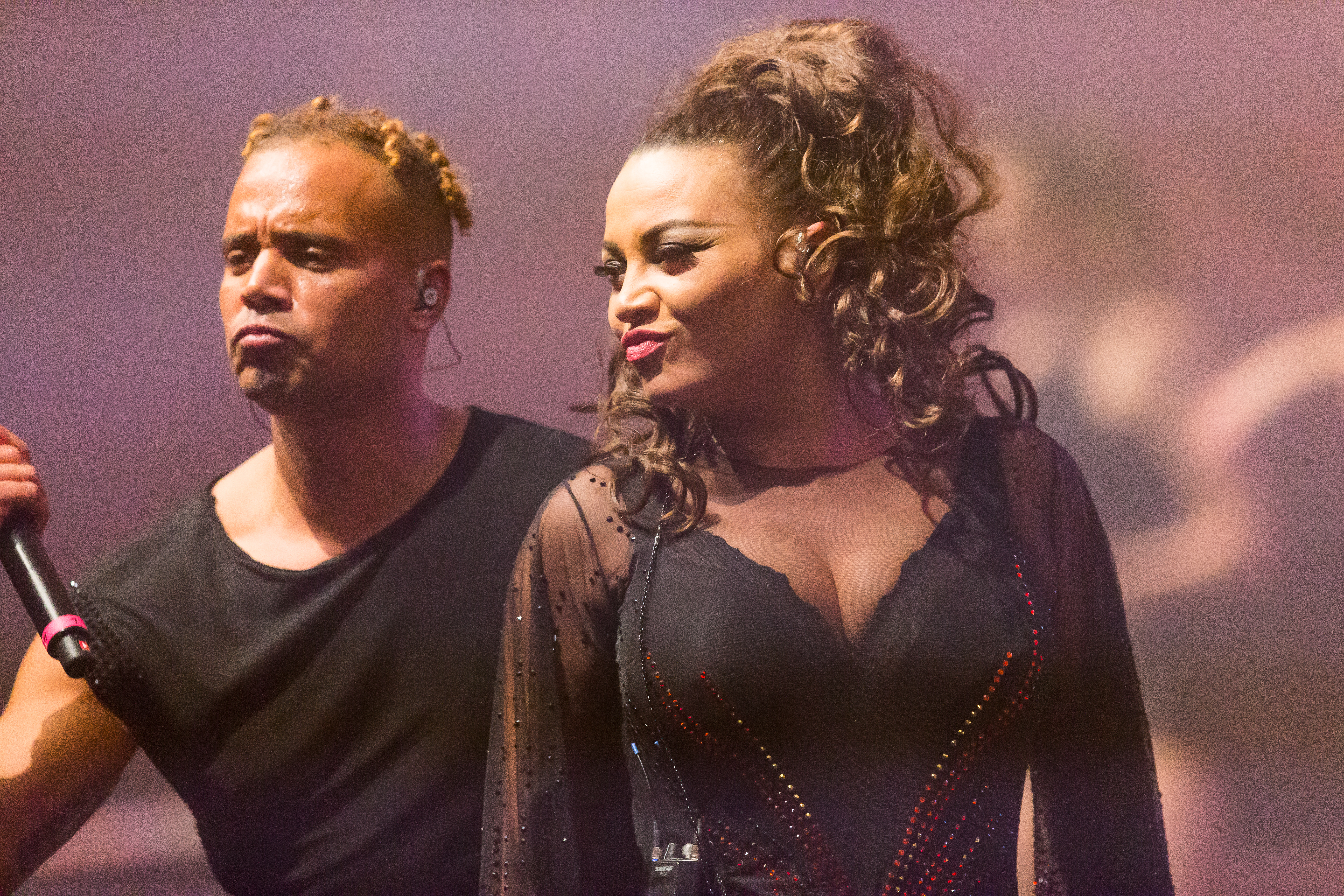 2 Unlimited during Sunshine Live - 90er Live on Stage at Maimarkt Halle, Mannheim, Baden Württemberg, Germany on 2016-11-27, Photo: Sven Mandel DJ Falk, E-Rotic, Twenty 4 Seven, Rednex, Vengaboys, Masterbox feat. Beatrix Delgado, 2 Brother on the 4th Floor, 2 Unlimited, Interactive, Charly Lownoise, Marusha